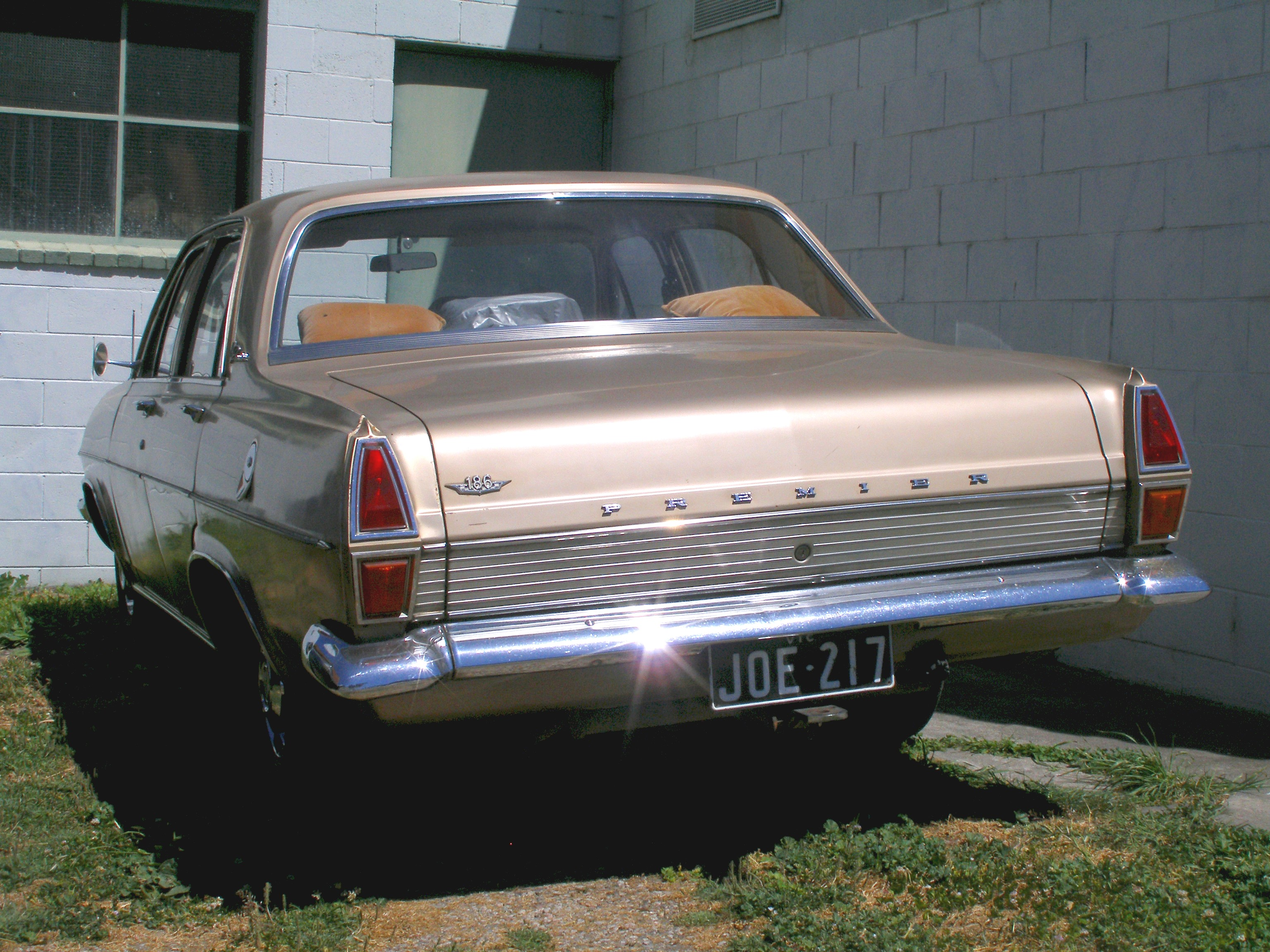 1966–1968 Holden HR Premier sedan, photographed in Victoria, Australia.